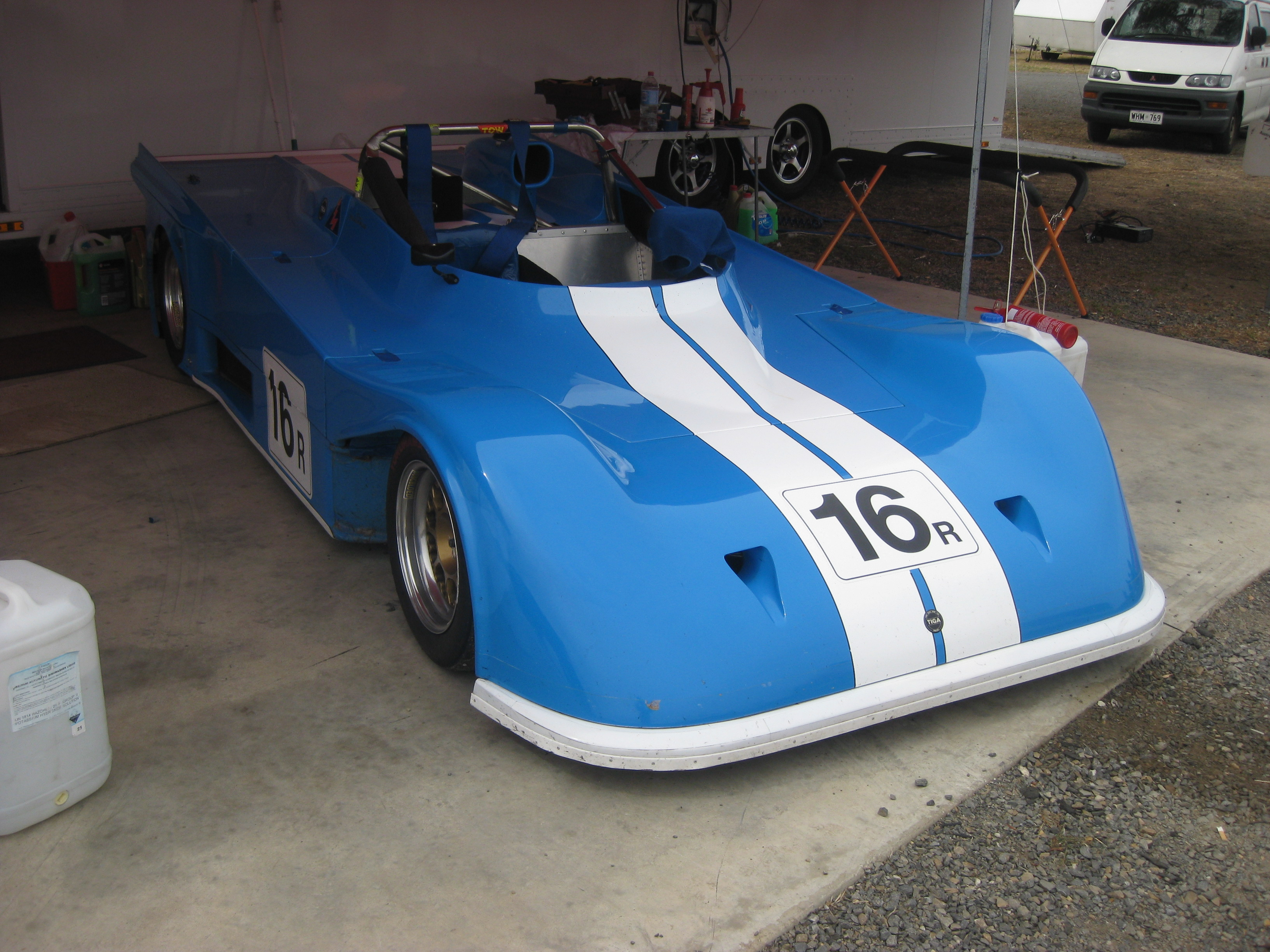 Tiga SC83 of Malcom Miller at Mallala Motor Sport Park on 30 March 2013. The car was built in 1983 for the Sports 2000 category and was competing at Mallala under Group R "Historic racing & Sports racing cars (Post 1977)"